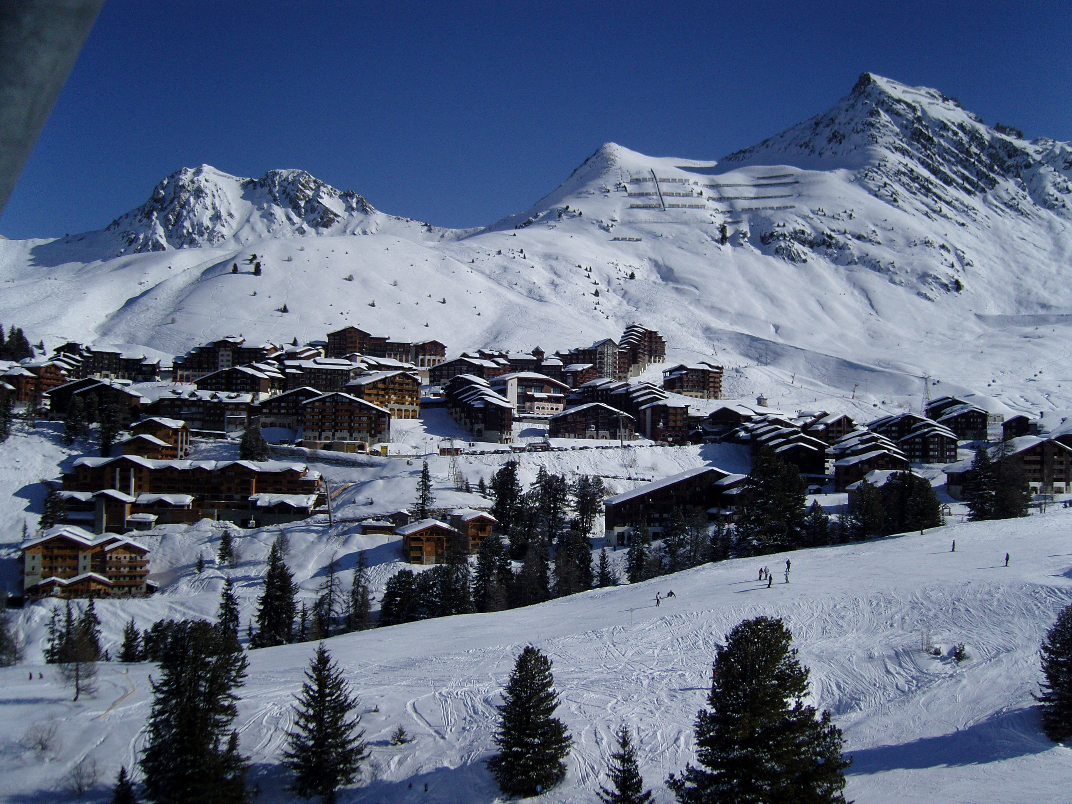 Picture of Bell Plagne from Les Blanchets chairlift